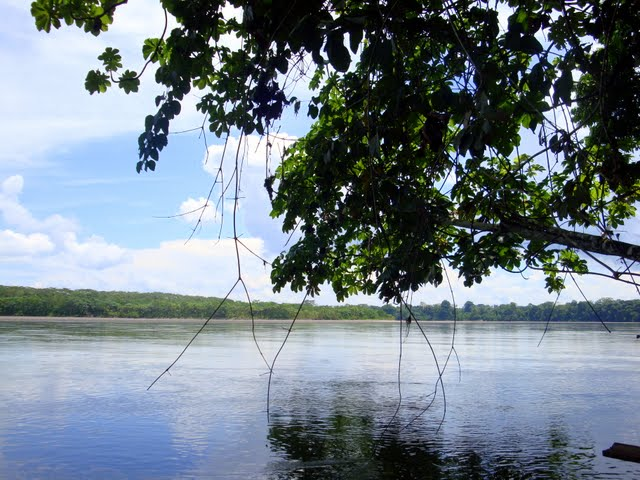 In the region the Achuar indios are living plenty of water is available. The village is located close to the river which is an important element in their daily life.